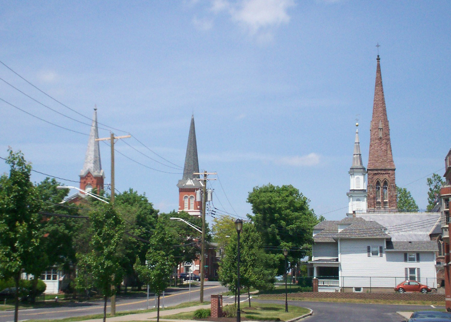 View of the four churches at the intersection of Church Street, Canandaigua Street (State Route 21), East Main Street (State Routes 21 and 31) and West Main Street (State Route 31) in Palmyra, New York. The village of Palmyra claims this is the only such occurrence in the United States with four different churches on four facing corners.